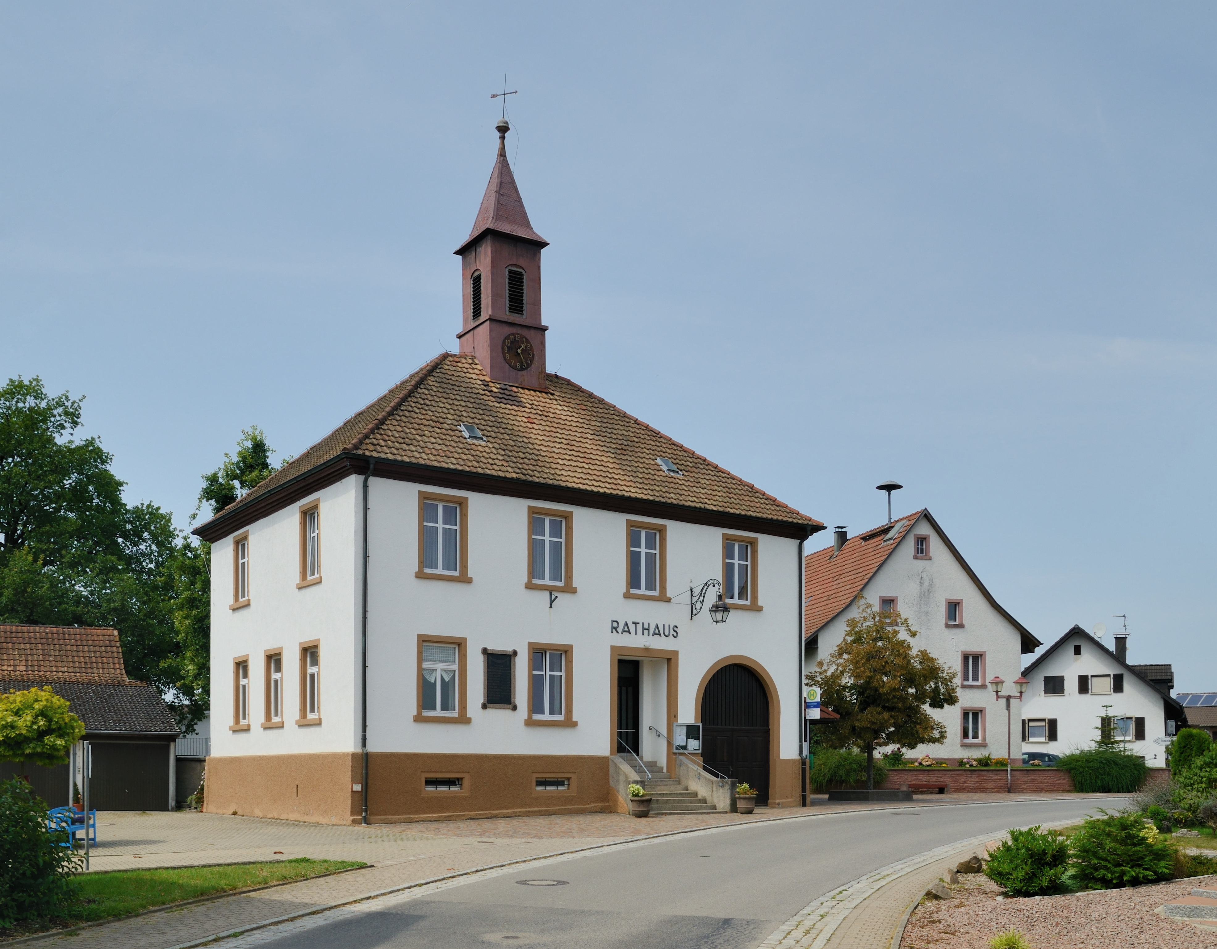 Rheinfelden-Adelhausen: town hall